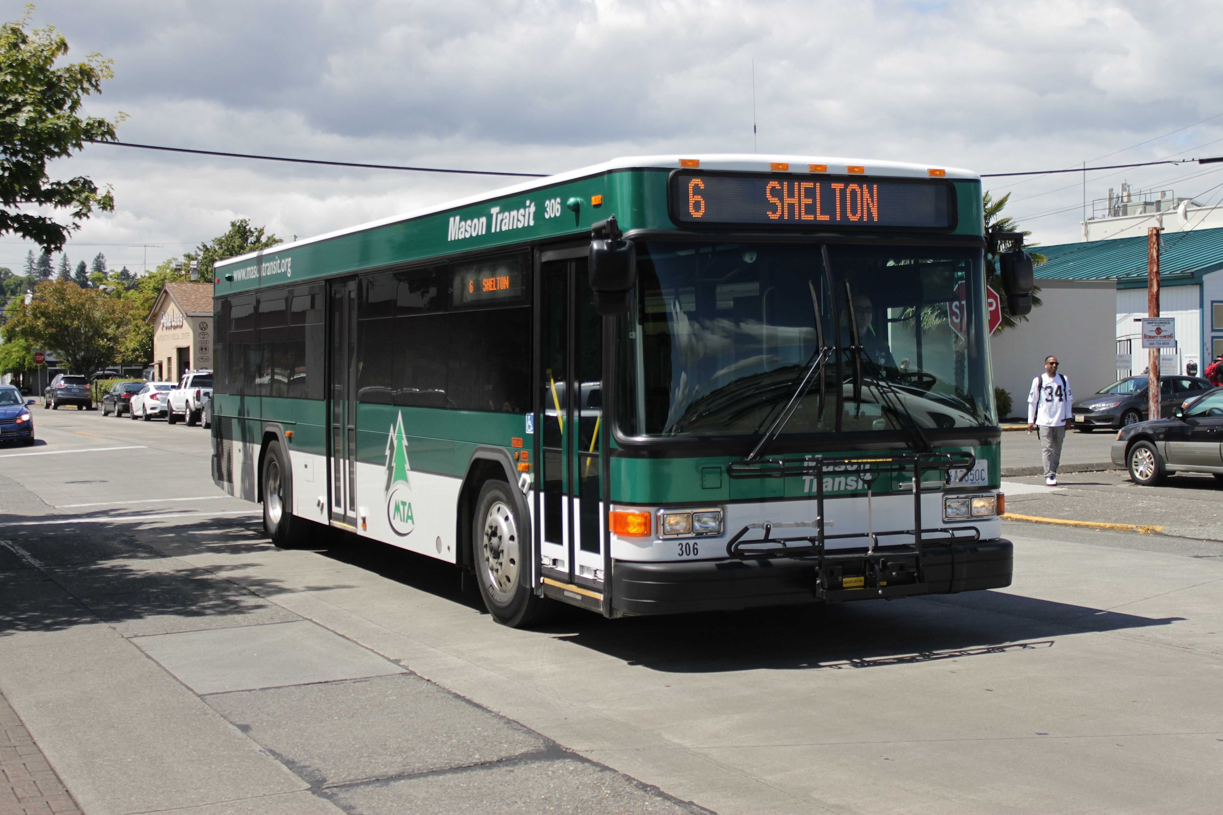 Mason Transit Authority 306, a 2013 Gillig Advantage, on route 6 in Olympia, Washington.